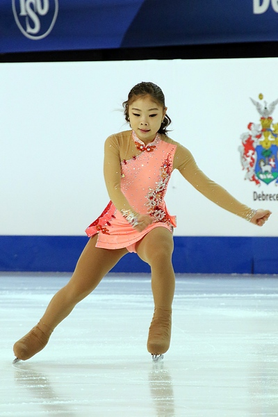 Photos – Junior World Championships 2016 – Ladies (Ha Nul KIM KOR – 9th Place)